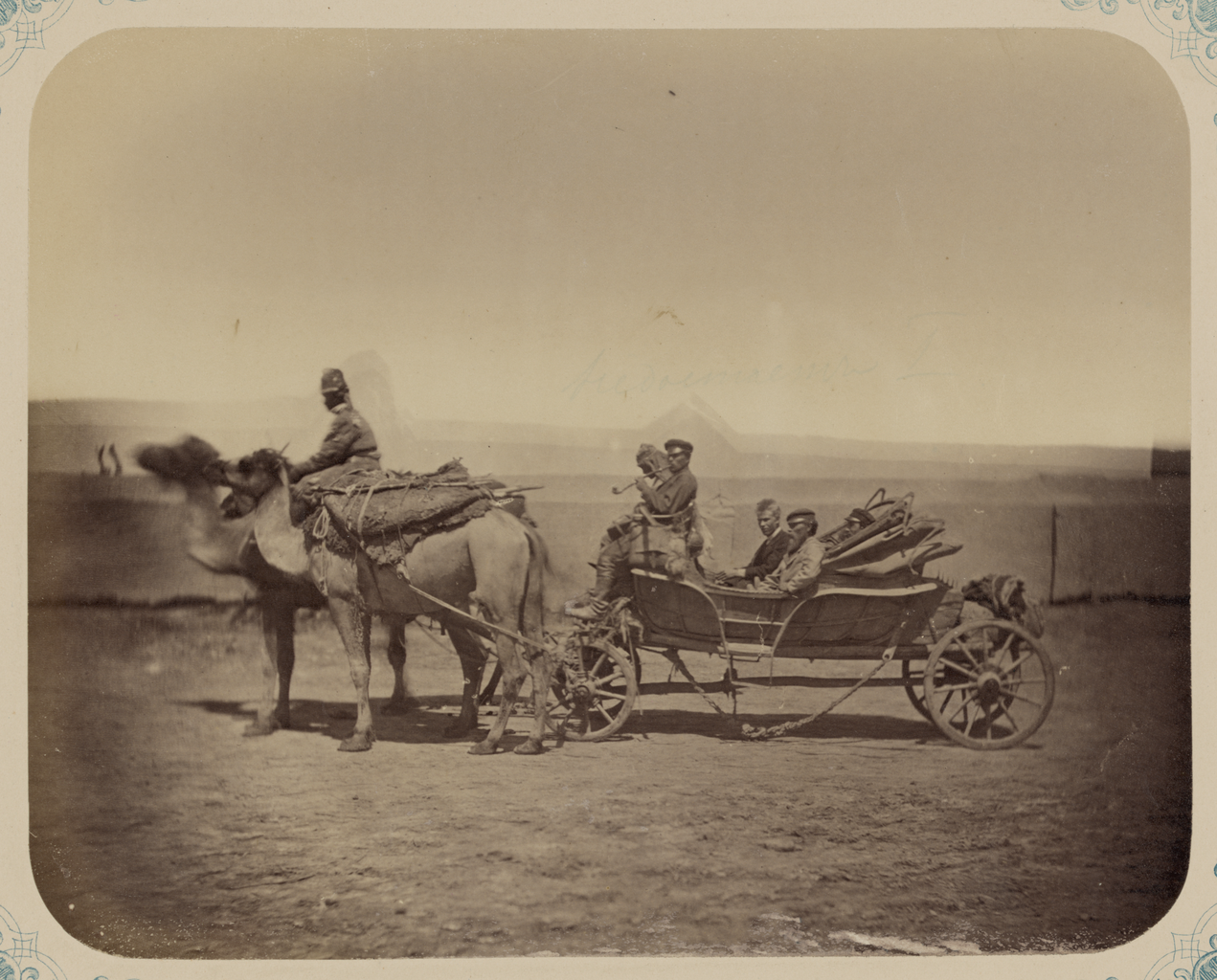 This photograph is from the ethnographical part of Turkestan Album, a comprehensive visual survey of Central Asia undertaken after imperial Russia assumed control of the region in the 1860s. Commissioned by General Konstantin Petrovich von Kaufman (1818–82), the first governor-general of Russian Turkestan, the album is in four parts spanning six volumes: “Archaeological Part” (two volumes); “Ethnographic Part” (two volumes); “Trades Part” (one volume); and “Historical Part” (one volume). The principal compiler was Russian Orientalist Aleksandr L. Kun, who was assisted by Nikolai V. Bogaevskii. The album contains some 1,200 photographs, along with architectural plans, watercolor drawings, and maps. The “Ethnographic Part” includes 491 individual photographs on 163 plates. The photographs show individuals representing the different peoples of the region (Plates 1–33); daily life and rituals (Plates 34–91); and views of villages and cities, street vendors, and commercial activities (Plates 92–163). Camels; Carriages and carts; Ethnographic photographs; Photographic surveys; Postal service